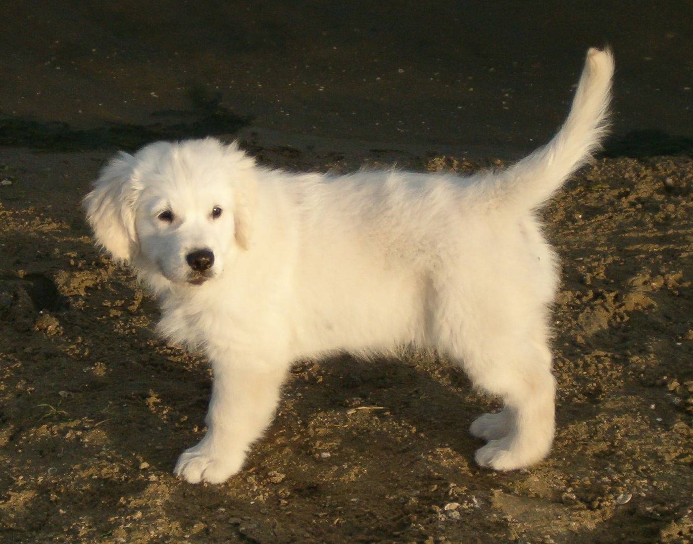 Golden Retriever puppy.